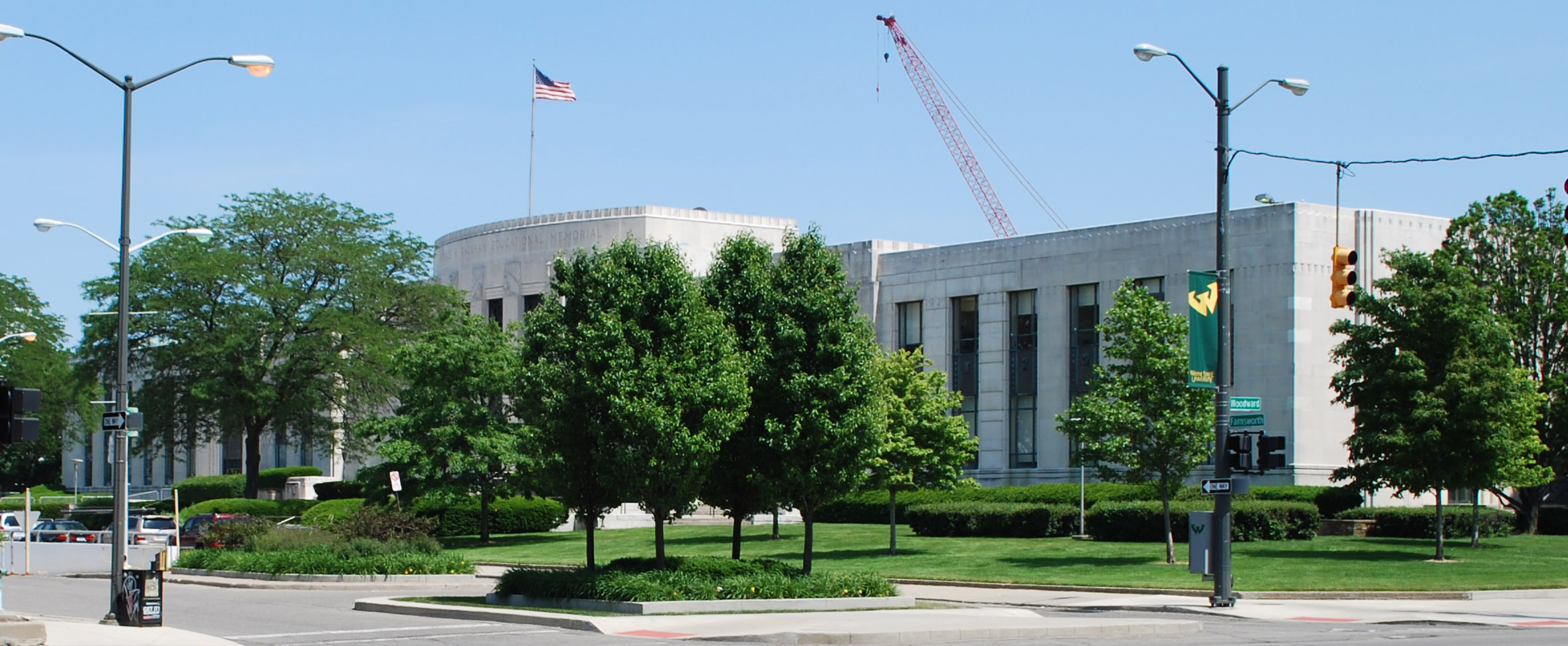 Horace H. Rackham Education Memorial Building — Detroit, Michigan. Built in 1941, a contributing property to the Cultural Center Historic District.